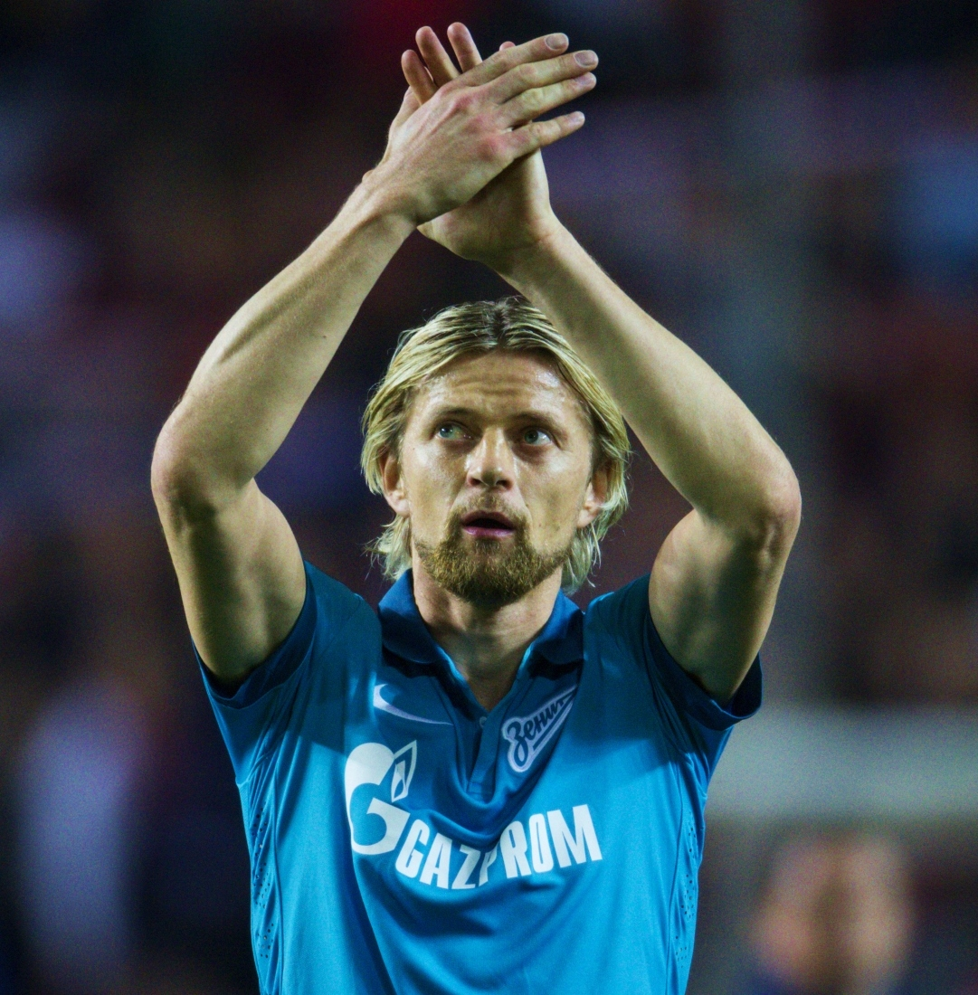 16.04.2015. Испания, Севилья, стадион «Эстадио Рамон Санчес Писхуан». Лига Европы УЕФА 2014/2015, 1/4 финала, «Севилья» — «Зенит». На снимке в синей форме: Анатолий Тимощук, полузащитник ФК «Зенит».